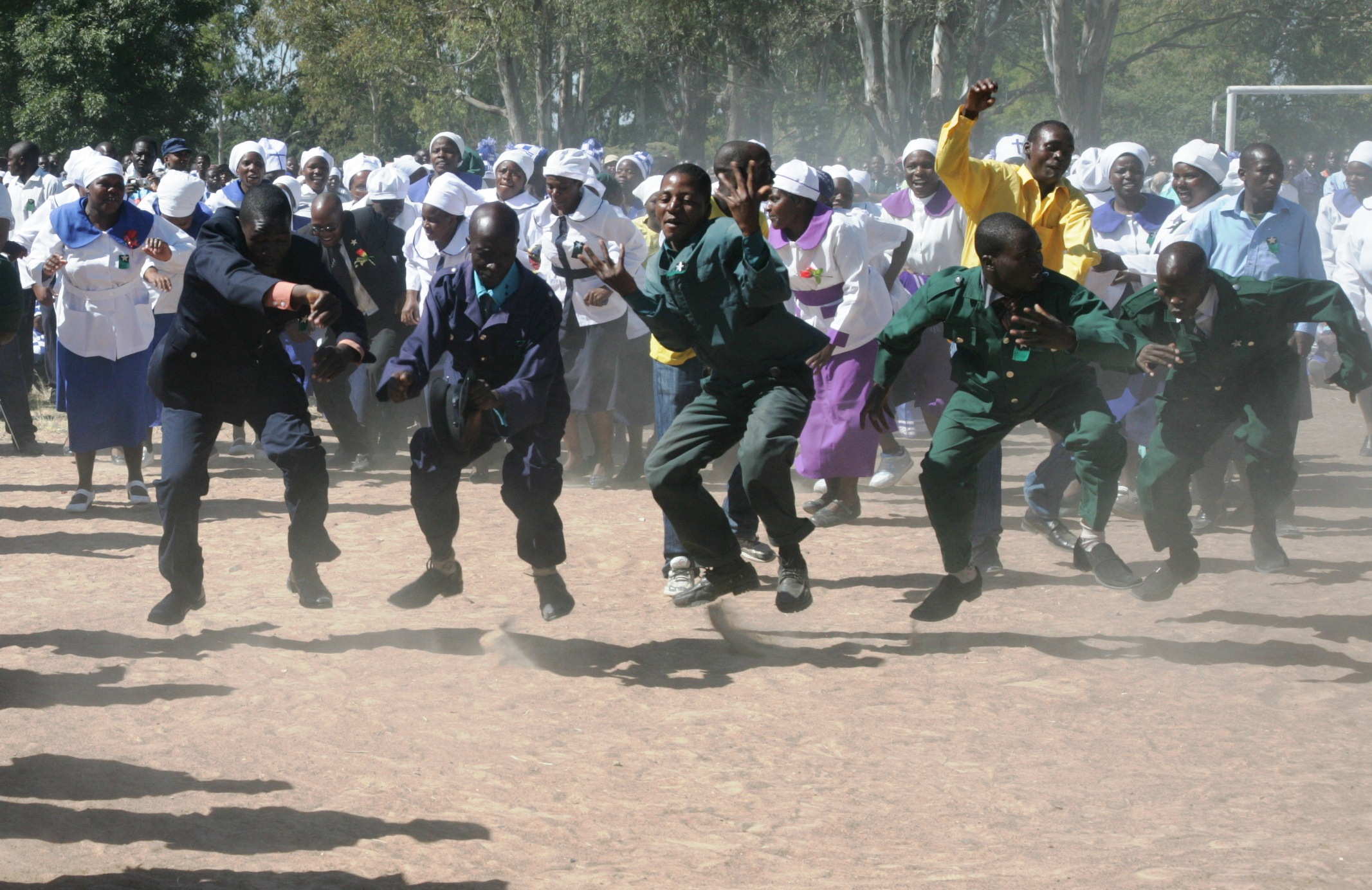 This is an image with the theme "Play" from: Zimbabwe